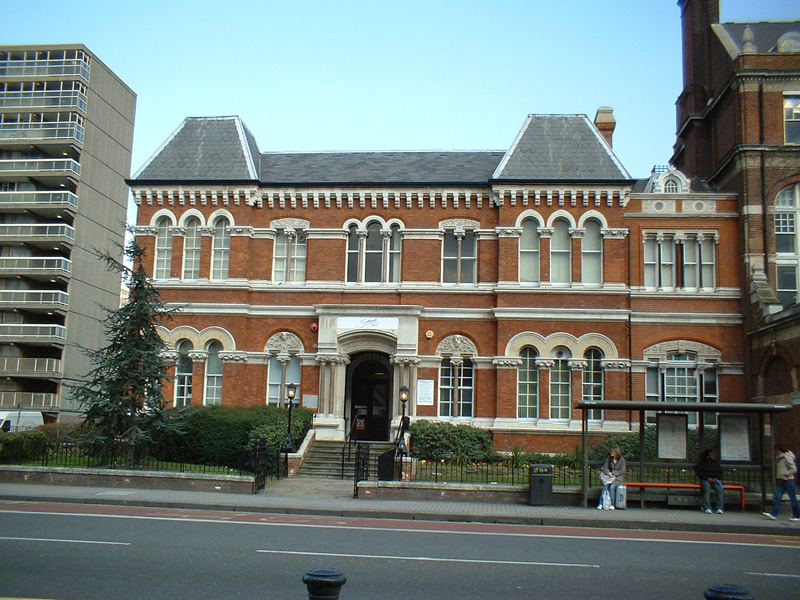 Southwark Vestry Hall - former Town Hall of the Metropolitan Borough of Southwark. Walworth Road, Southwark, London. Taken by C Ford, 29th February 04.